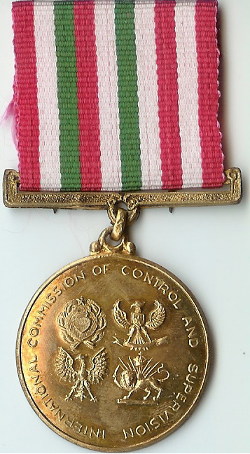 International Commission of Control and Supervision service medal 18 Nov 1974